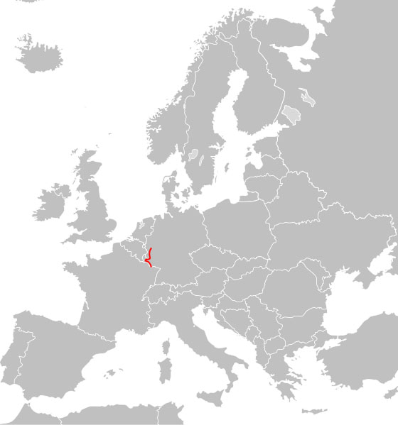 The European route 28